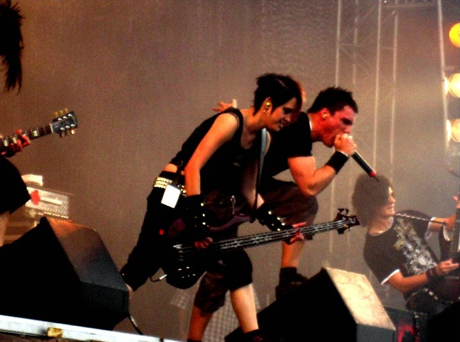 Sonic Syndicate, Metaltown Göteborg 2008